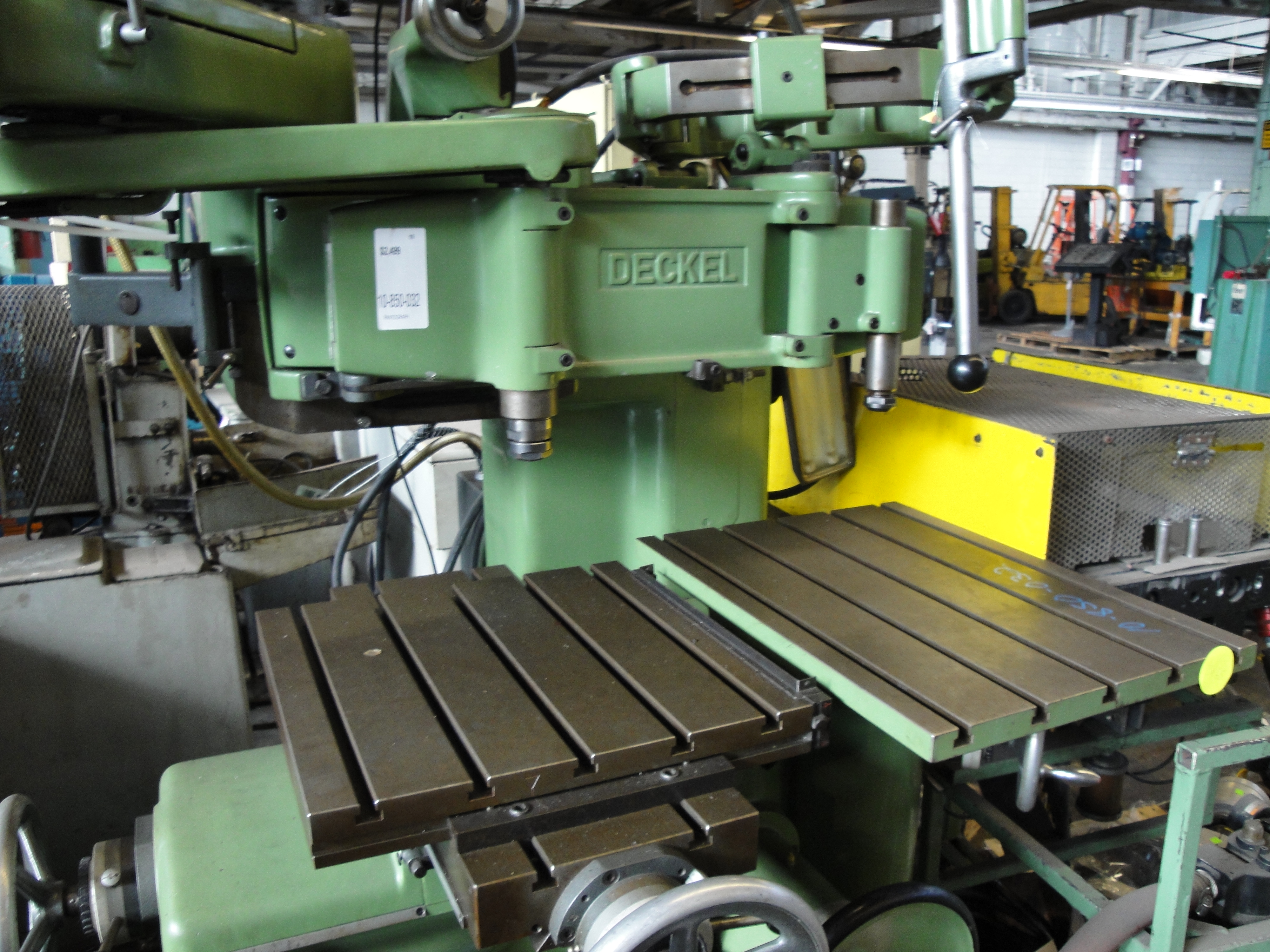 A view of the table of a pantograph milling machine. The roller stylus directs the toolpath of the milling cutter as the stylus rides a template or model. This model was built by Deckel, which was a German company that is now a part of the multinational Deckel-Maho-Guildemeister (DMG), which today is in strategic partnership with Mori Seiki, yielding the DMG-Mori Seiki organization.